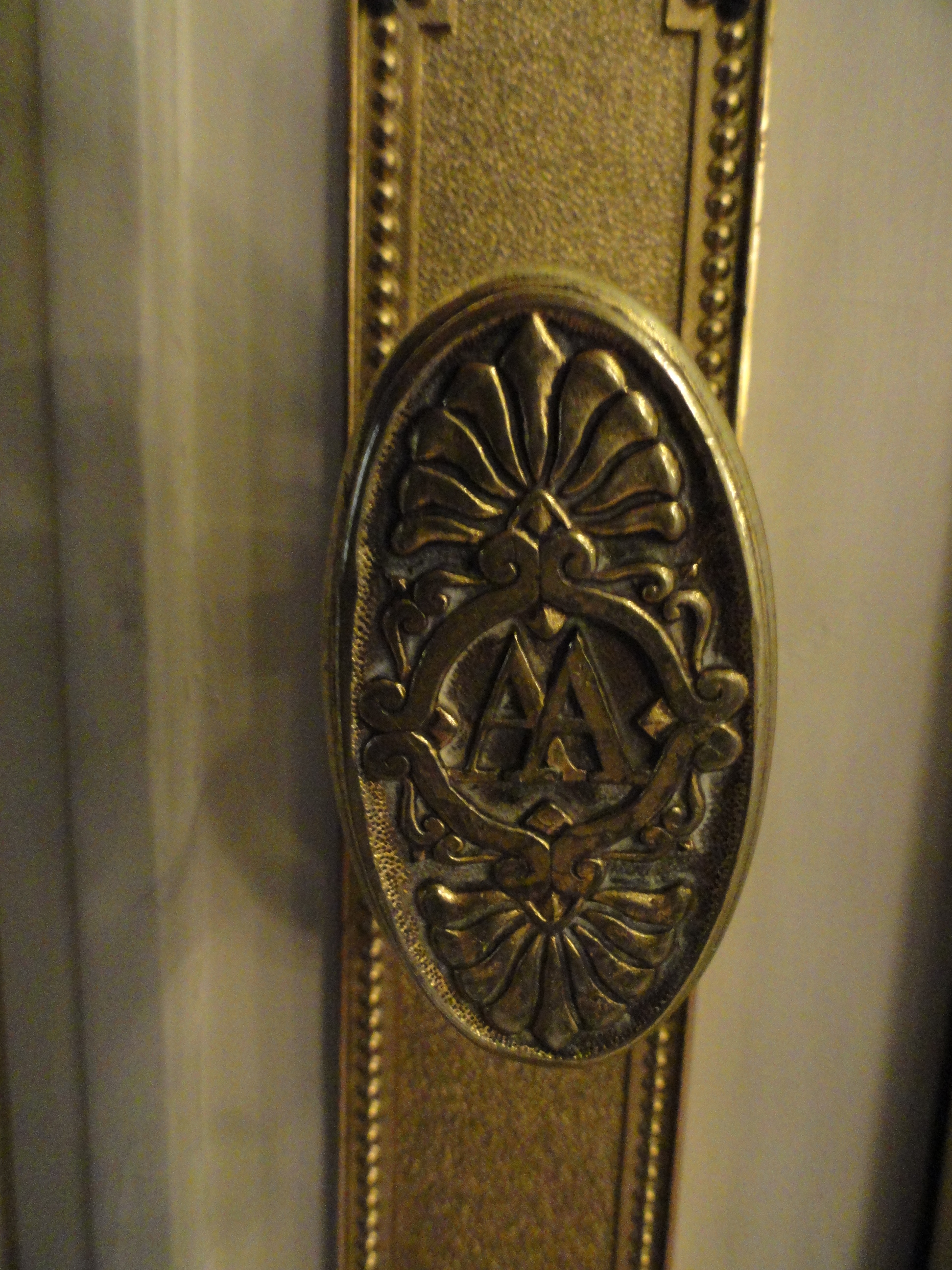 Door knob in the town hall of the 9 eme arrondissement of Paris. This knob has the initials AA of Alexandre Aguado, the banker who owned this mansion around 1830.